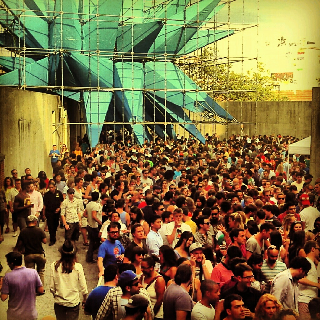 The Saturday Warm Up Party at MOMA's PS1.